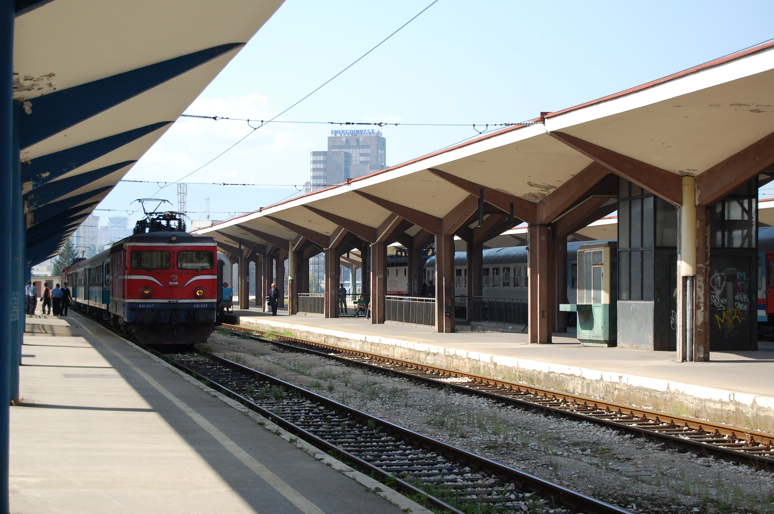 Railway Station in Sarajevo, October 1, 2011